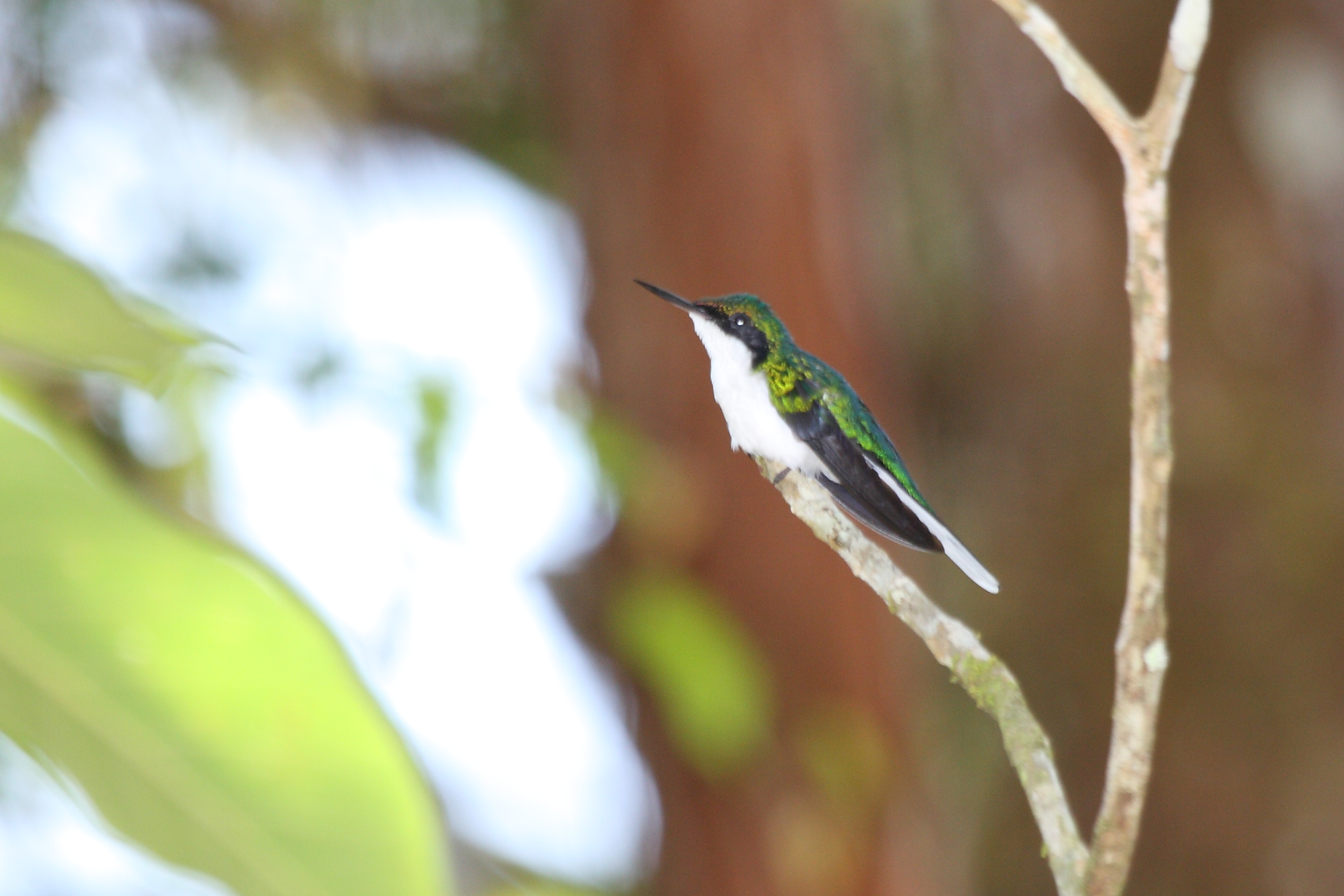 Photographed near Cerro Azul, Panama.